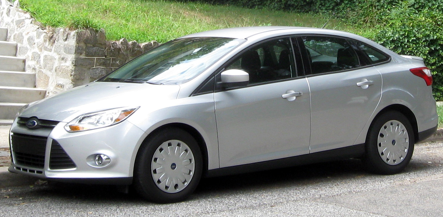 2012 Ford Focus SFE photographed in Washington, D.C., USA.